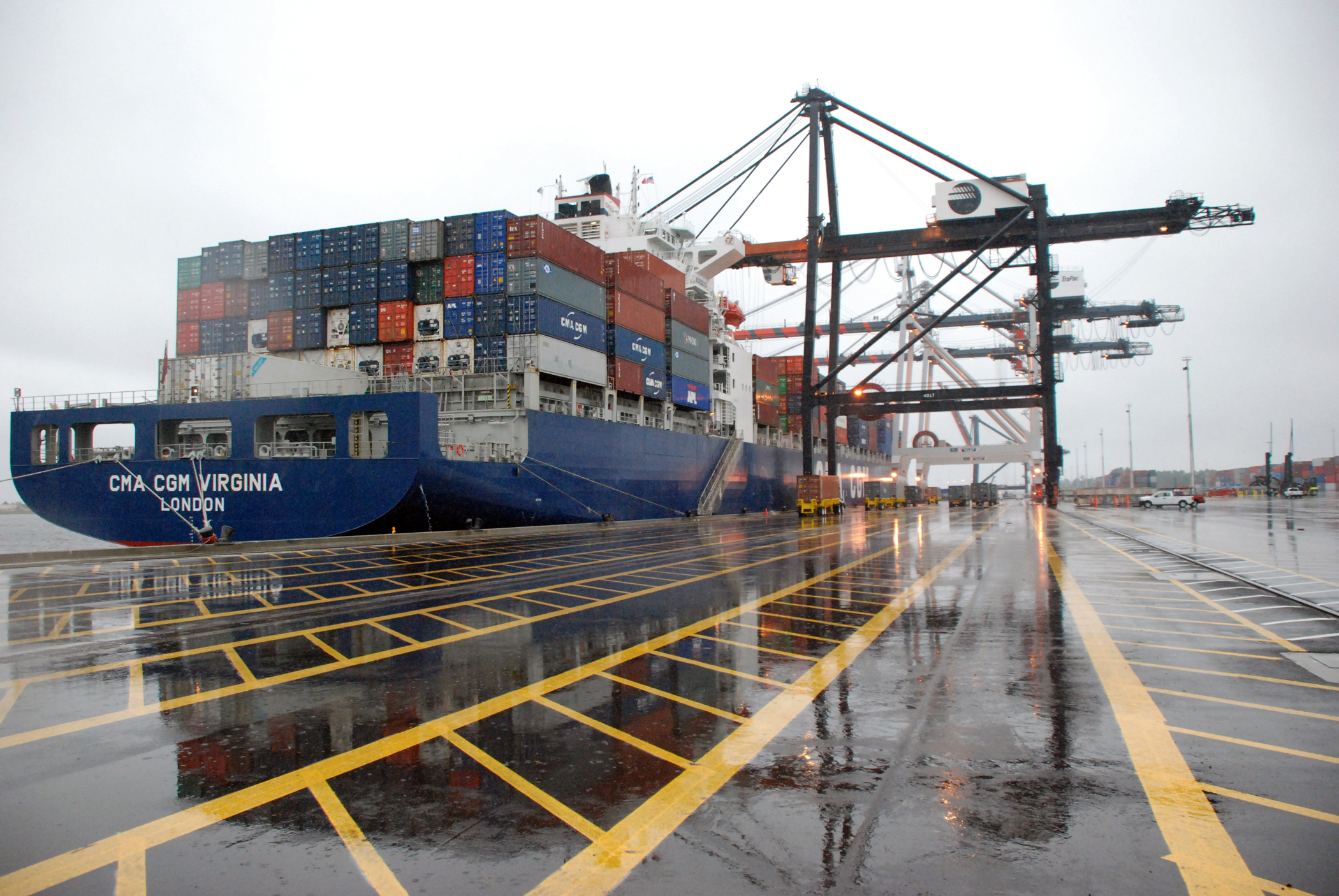 The TraPac Container Terminal at Dames Point welcomed its first container ship today, the CMA CGM Virgina.